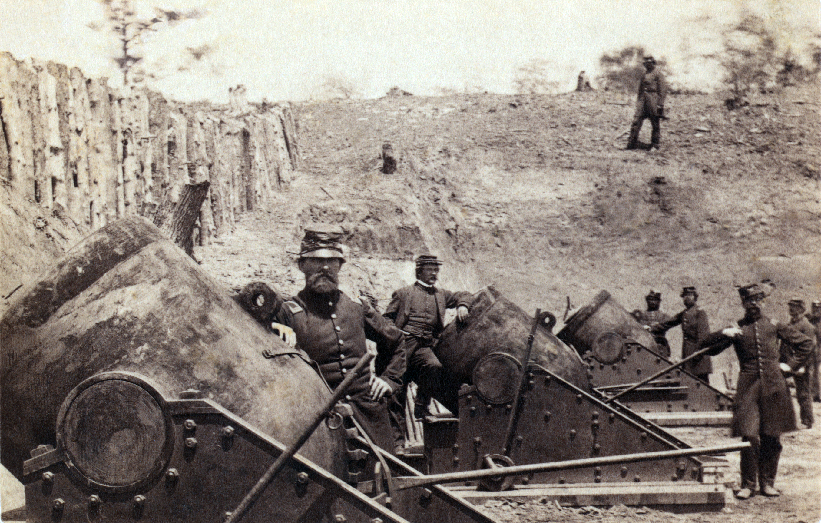 "Battery, No. 4--near Yorktown, mounting 10 13-inch mortars, each weighing 20,000 pounds. East-South end / Brady's Album Gallery." United States Civil War: artillery placements outside Yorktown, Virginia. Scanned from a photographic print on carte visite mount; original from albumen